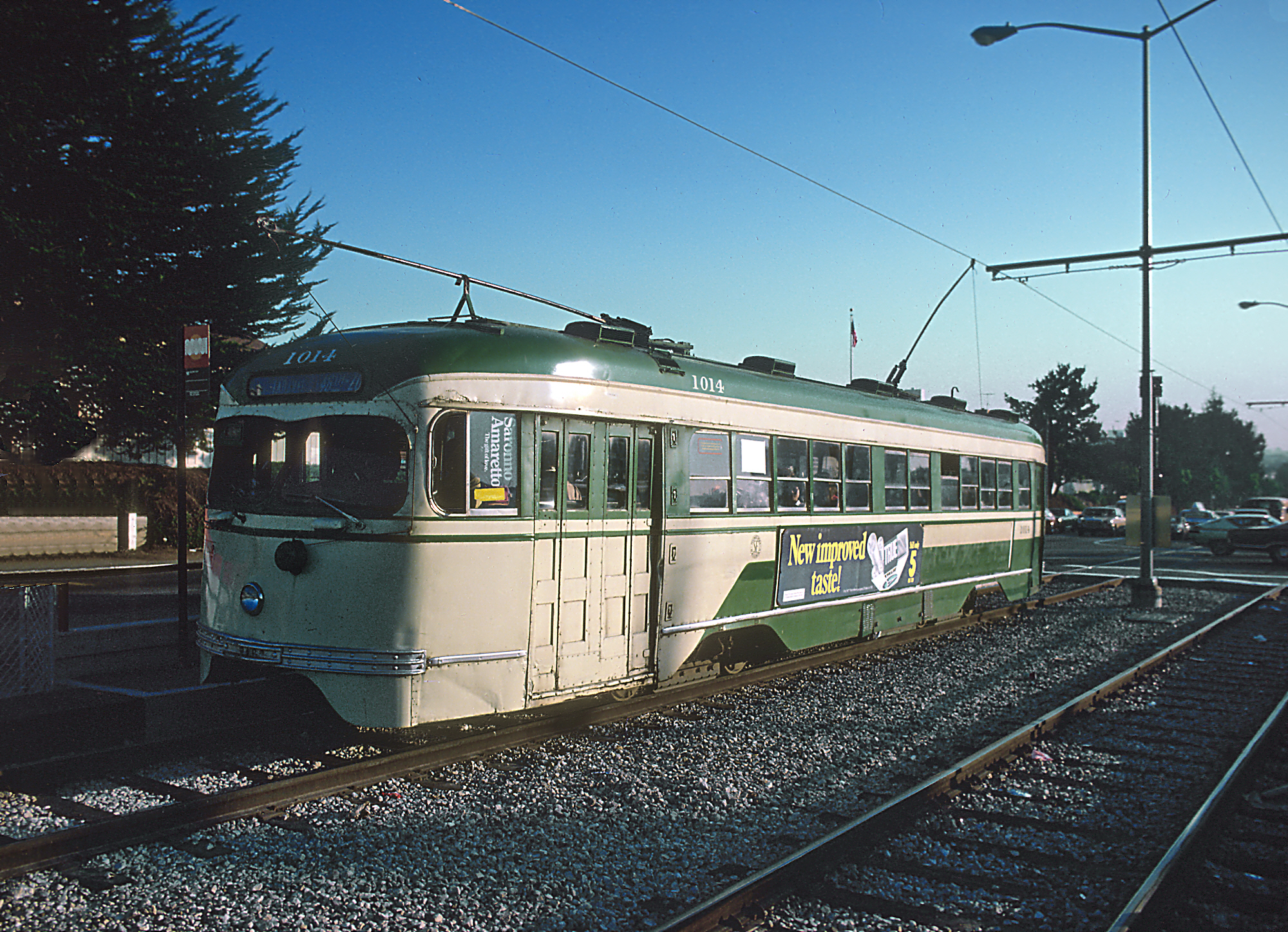 Muni #1014 at 19th Avenue and Winston in December 1980. Signed as an L Taraval car, it will not head into the Twin Peaks Tunnel, but instead turn onto the L Taraval line to run there.